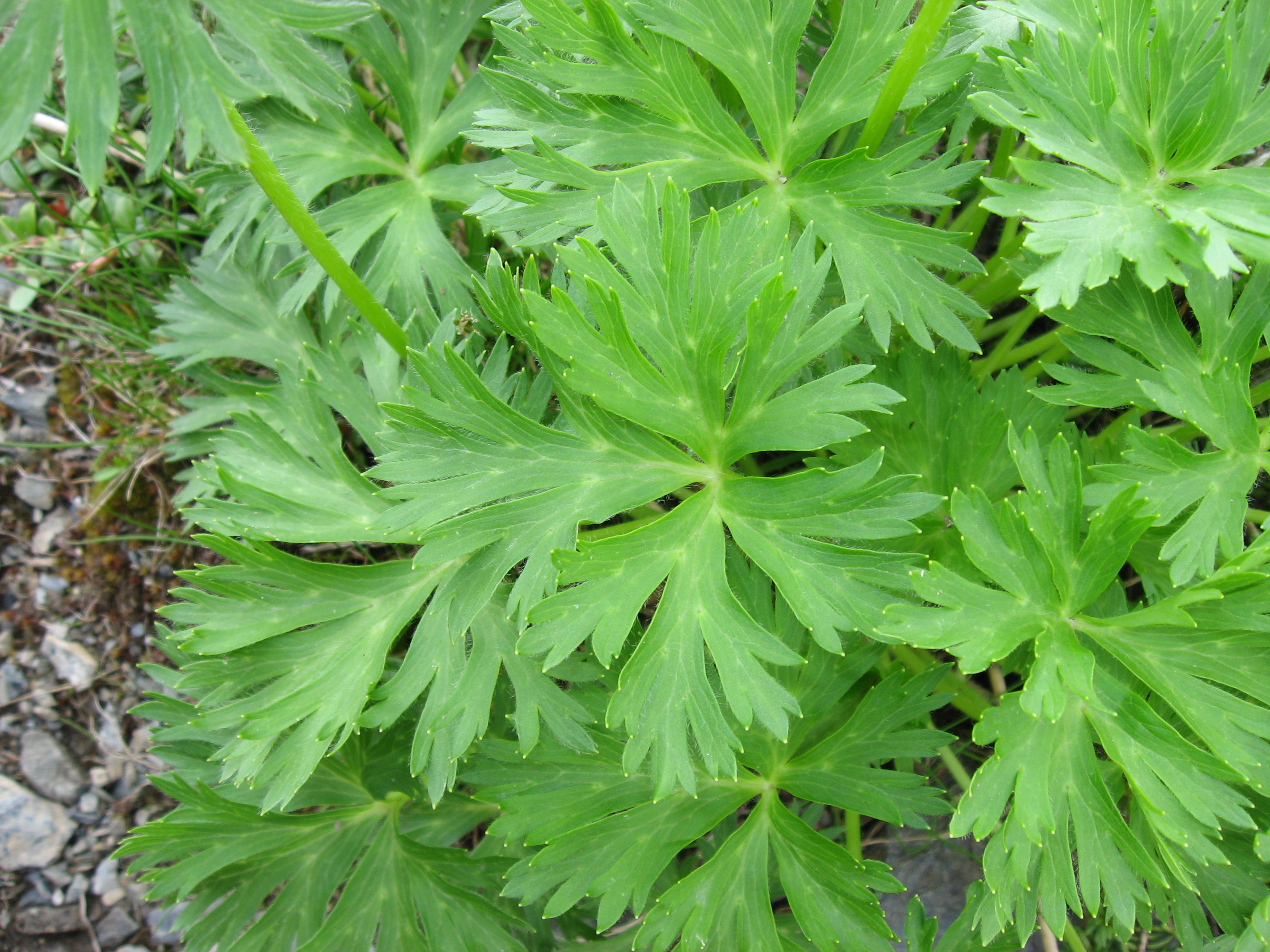 Anemone narcissiflora